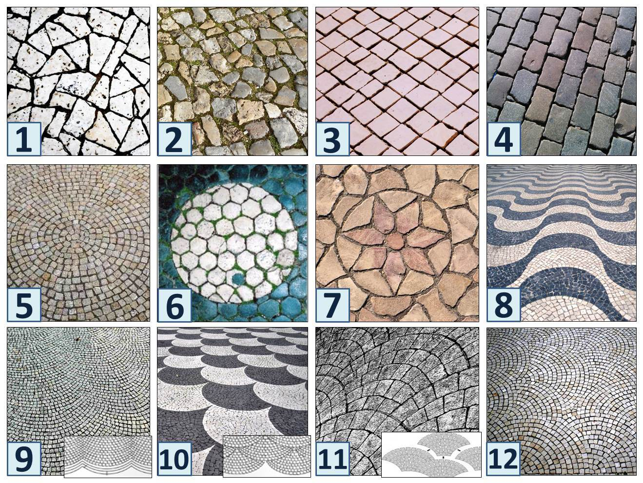 Vários tipos de aplicação de calçada.